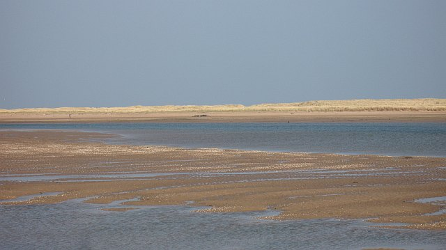 Tyne Sands The sands are drying out on a neap tide. The dunes on the far side are on a new spit which started forming in the 1940s and now extends far out towards Baldred's Cradle. The maps have some catching up here, the spit is far longer than portrayed.